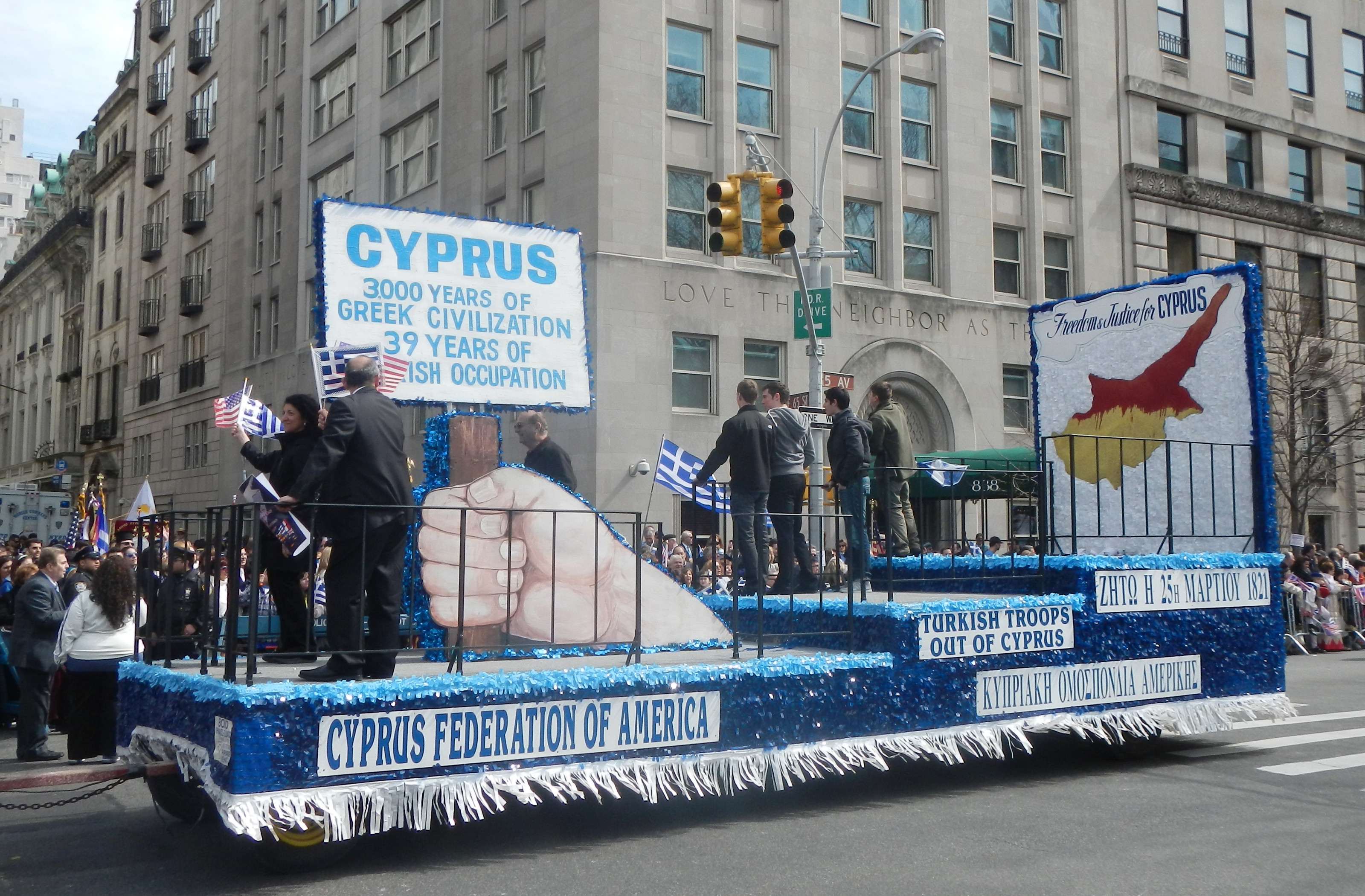 Looking east across 5th Avenue at Cyprus celebration on a cloudy day.